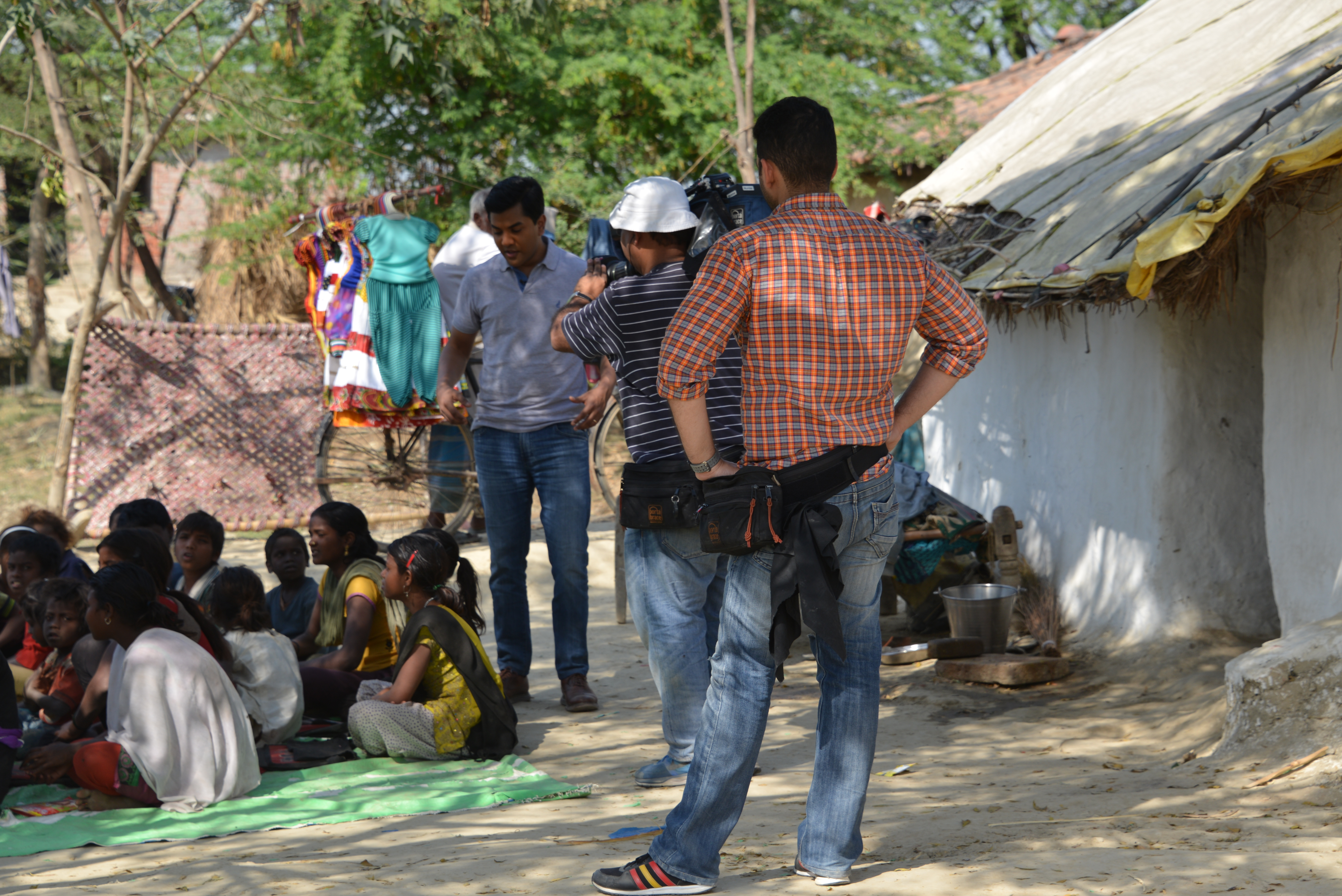 Ravi Agrawal reporting for CNN's Freedom Project in rural Uttar Pradesh, India